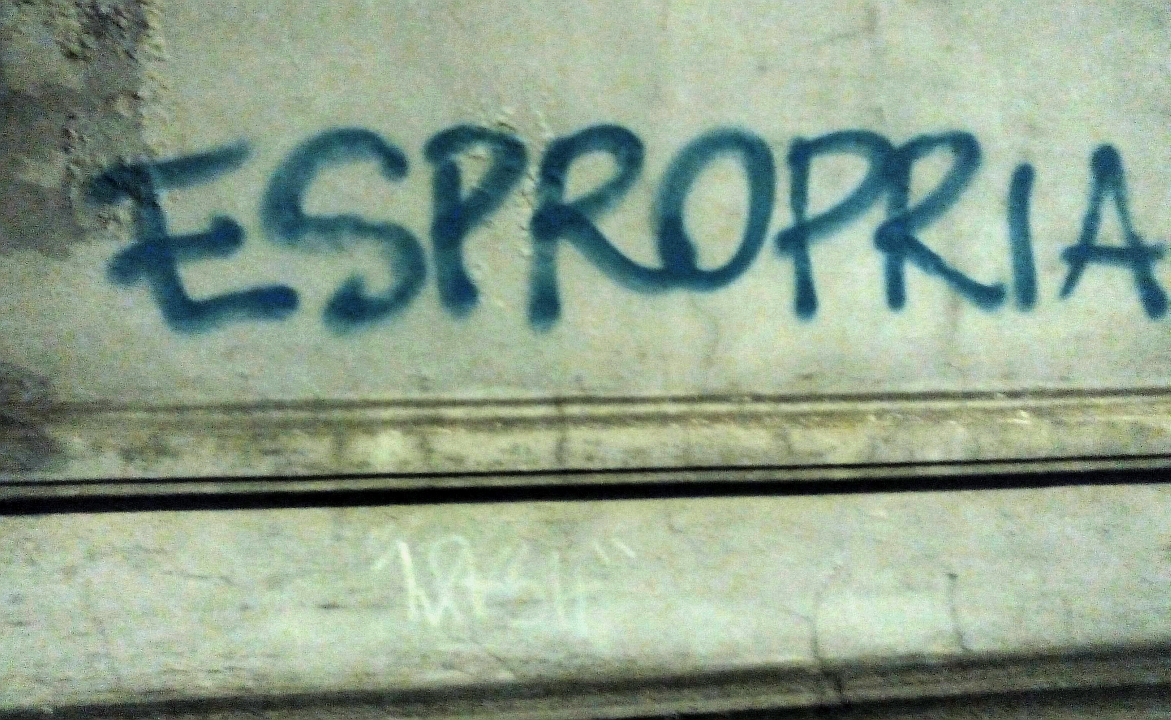 "Espropria": graffiti in Turin, October 2016